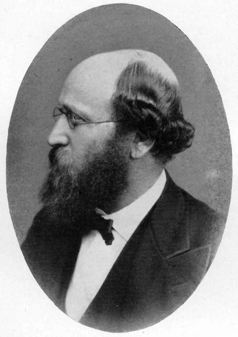 Theodor Gomperz